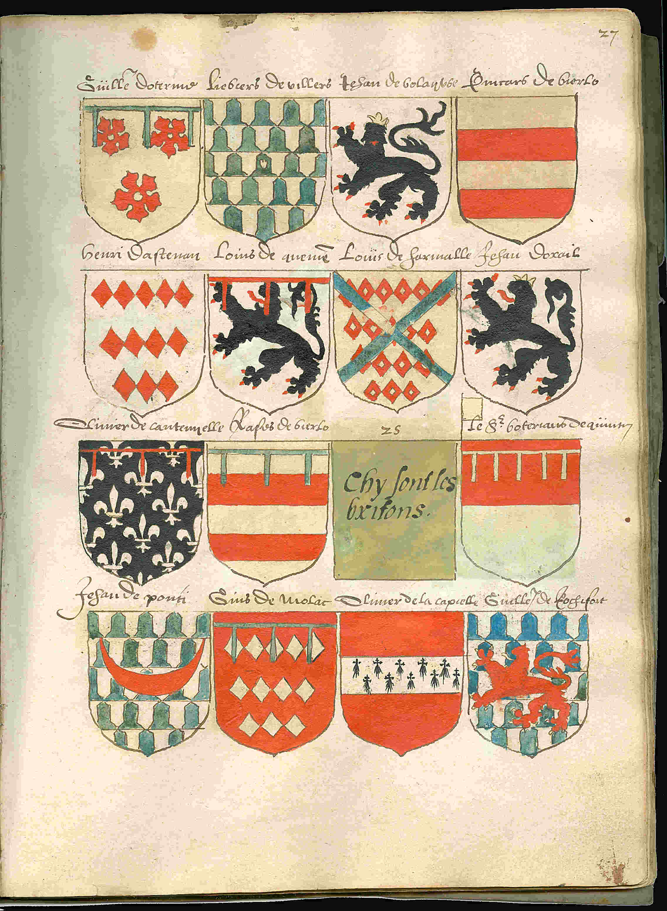 Page 27 from a copy of the Beyeren armorial / Wapenboek Beyeren from ca. 1600. The original Beyeren armorial from 1405 can be viewed at the website of the KB